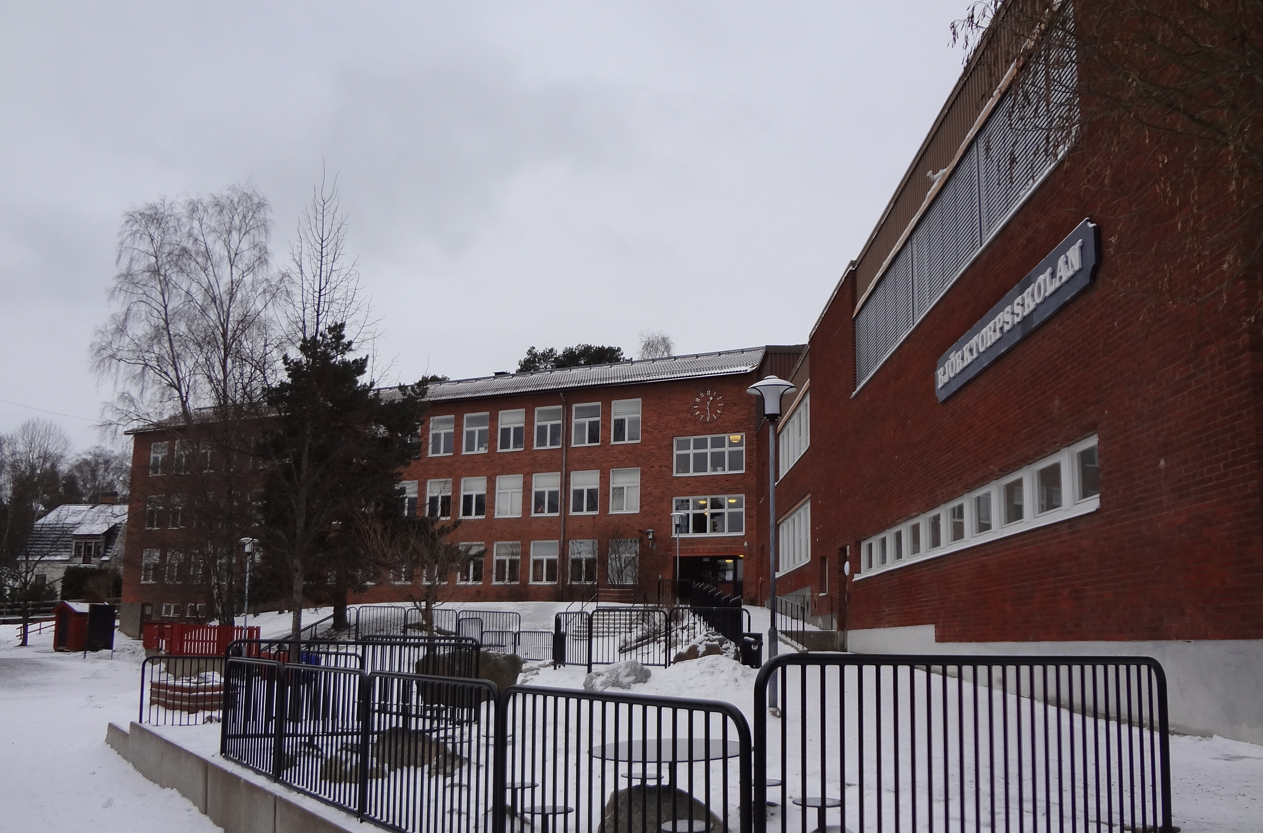 School "Björktorpsskolan" in Eskilstuna, Sweden.